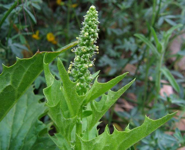 Chenopodium californicum at Cheeseboro/Palo Comado Canyons: Palo Comado Canyon trail, Santa Monica Mountains National Recreation Area, California, USA.